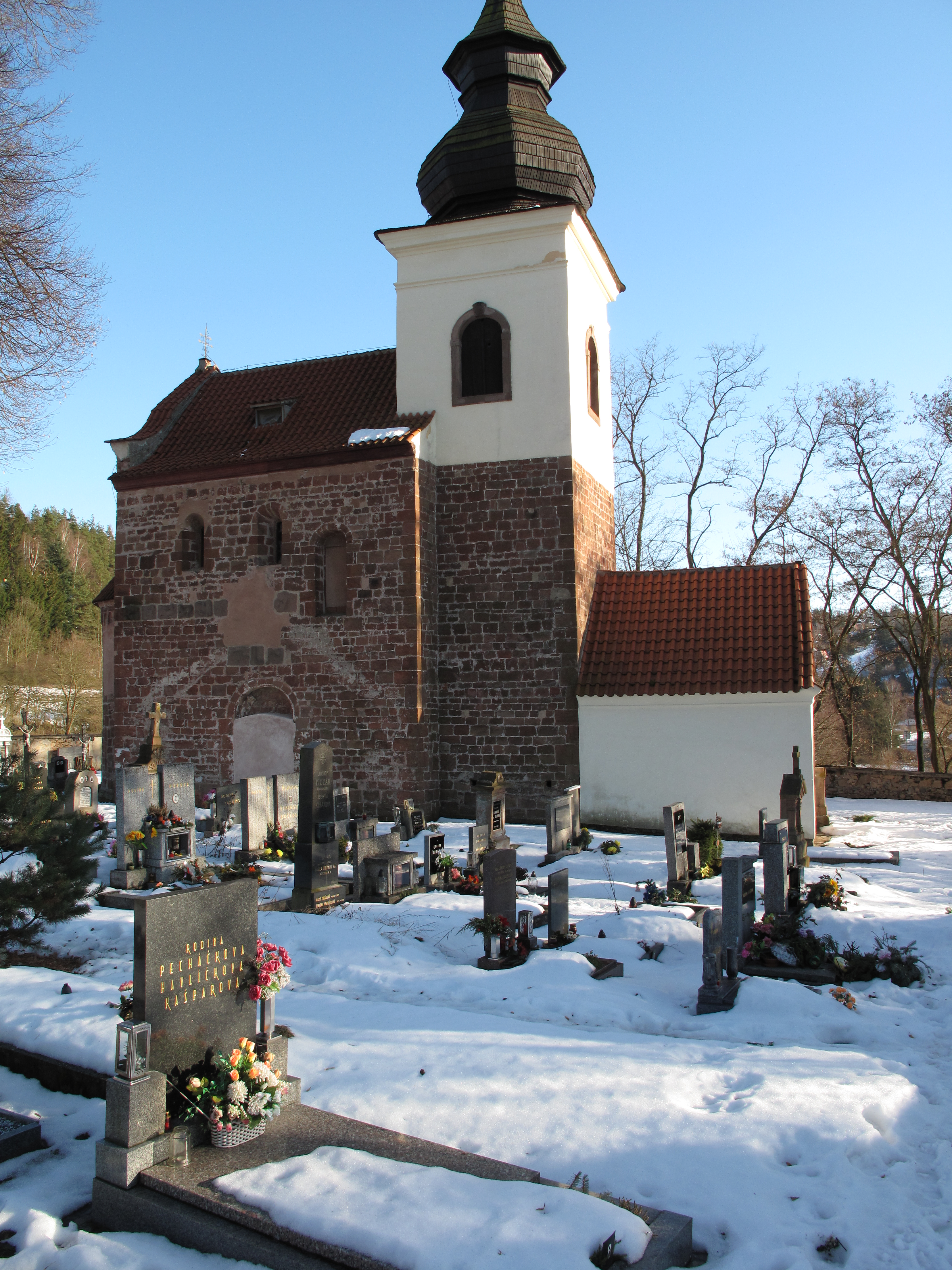 The church of St. James the Greater from the north, Stříbrná Skalice, Prague-East District, Czech Republic. This photograph was taken within the scope of the 'Czech Municipalities Photographs' grant.